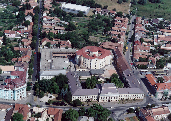 Balassagyarmat - Hungary - Europe This is a photo of a monument in Hungary. Identifier: 6510 This is a photo of a monument in Hungary. Identifier: 6512